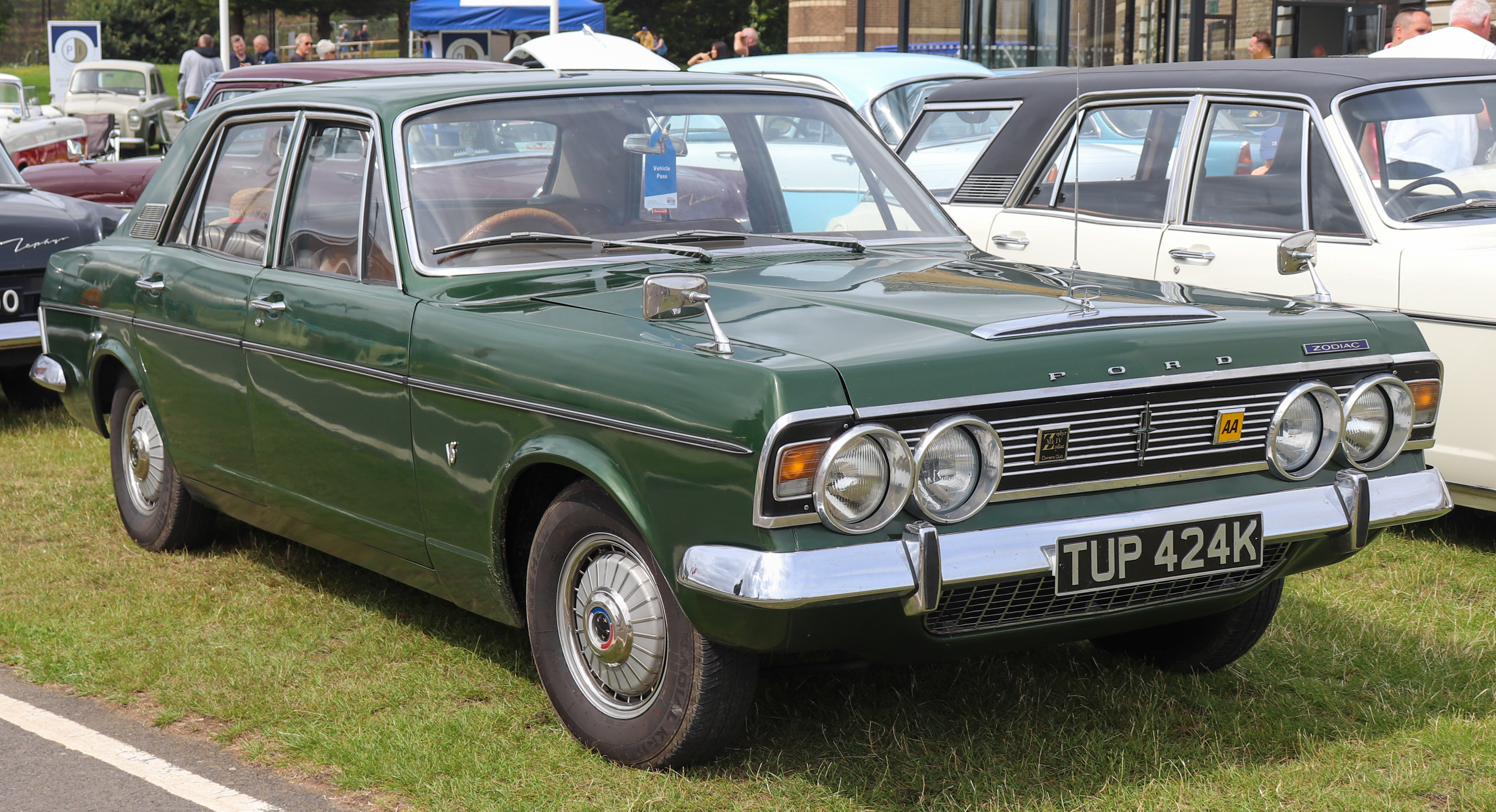 1972 Ford Zodiac Mark IV 3.0 Front Taken at the British Motor Museum Old Ford Rally 2019, Gaydon